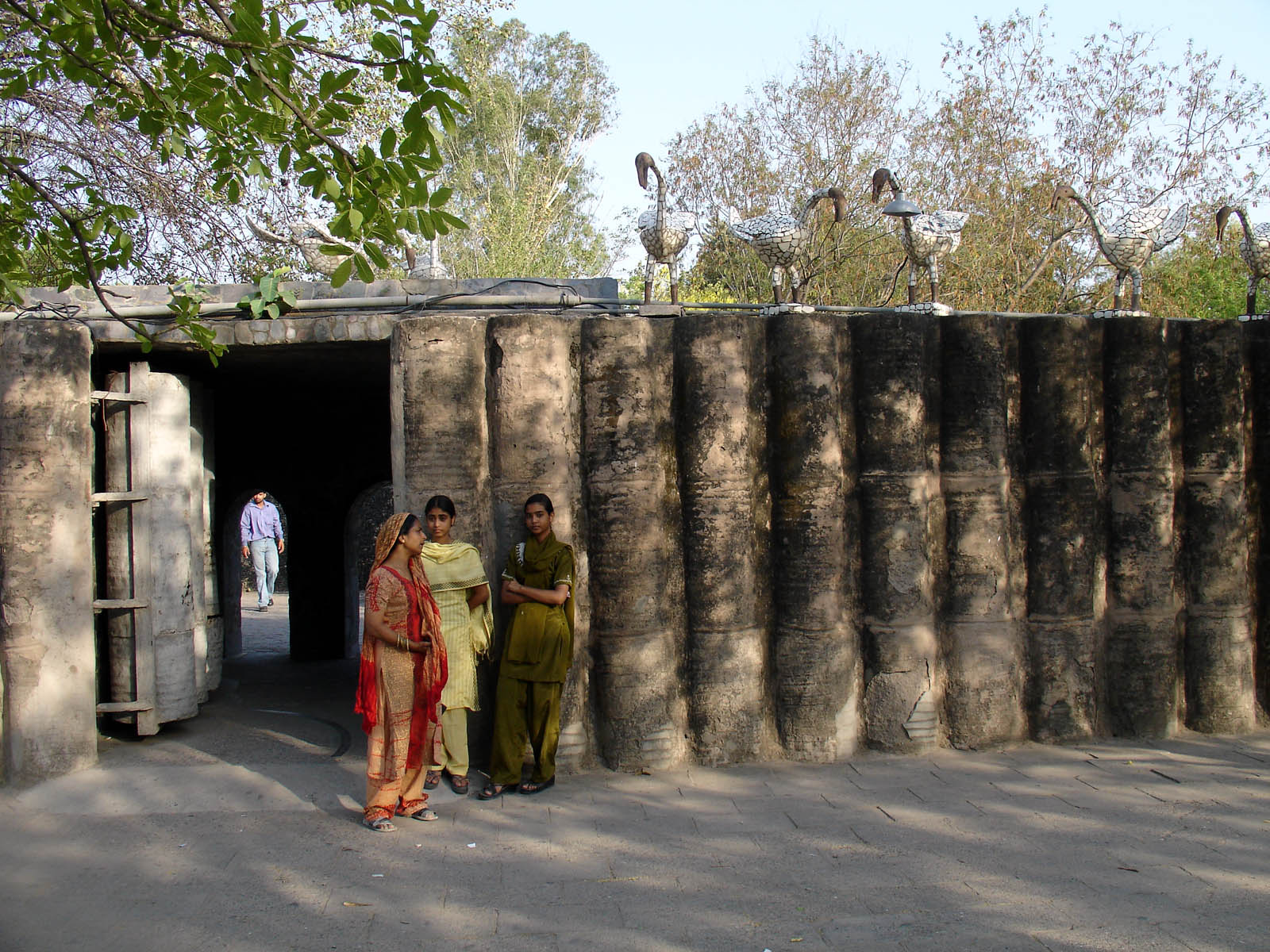 The Entrance to the Rock Garden of Chandighar